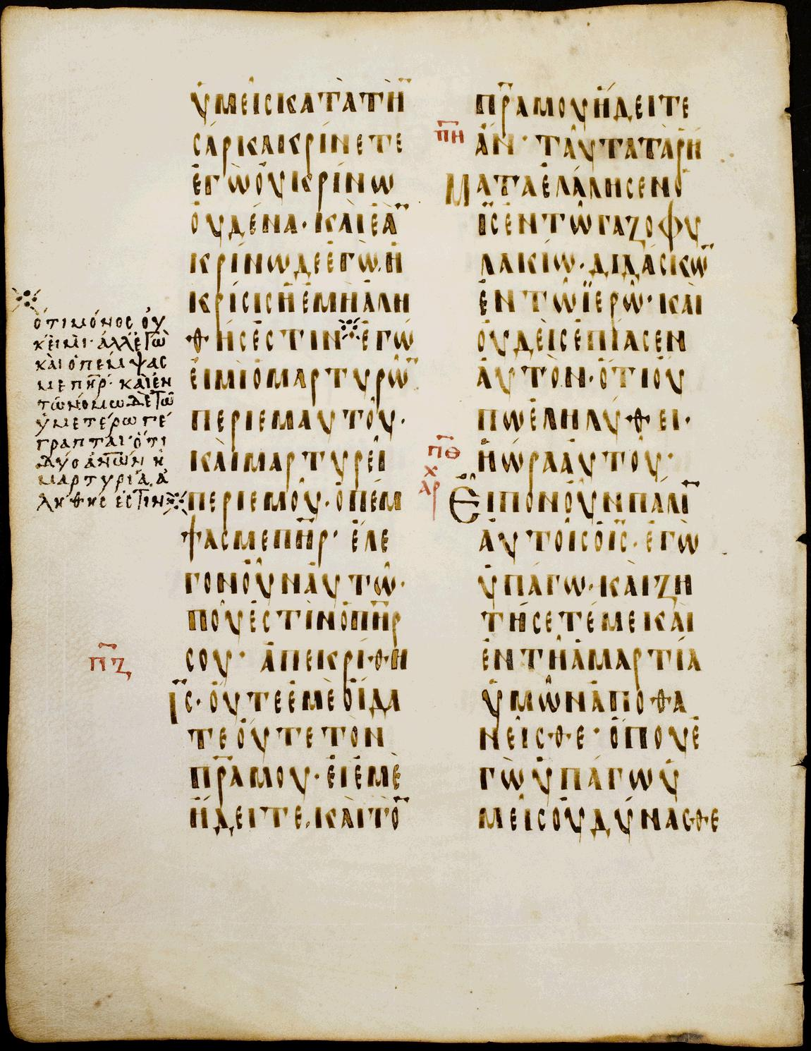 folio 200 verso with text of John8:15